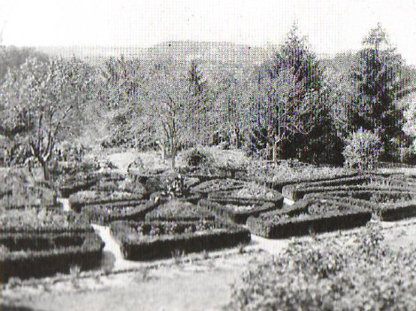 Terraced gardens at the Hampton Mansion, now the Hampton National Historic Site, in the Hampton area north of Towson, Maryland.